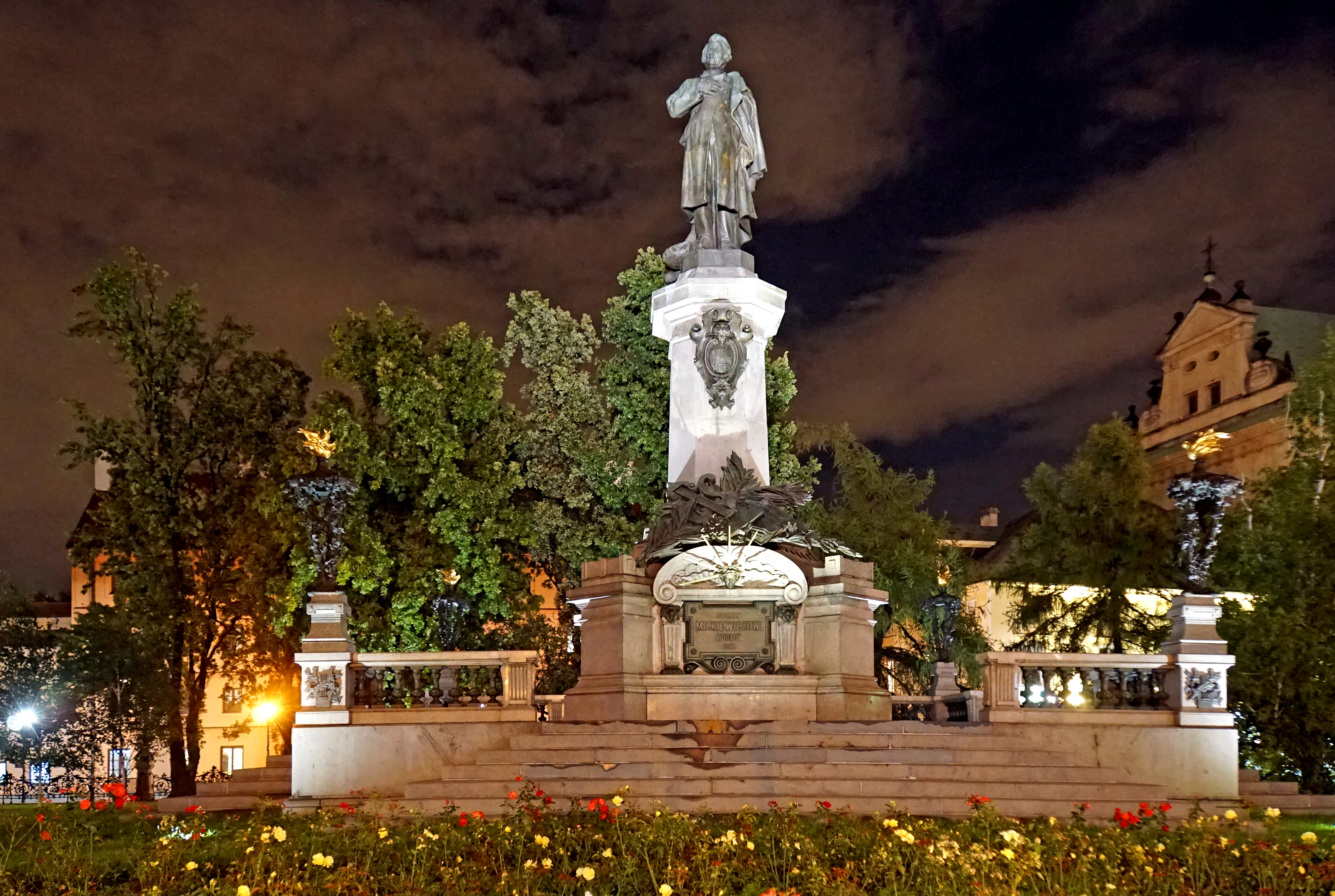 PLEASE, NO invitations or self promotions, THEY WILL BE DELETED. My photos are FREE to use, just give me credit and it would be nice if you let me know, thanks. Adam Bernard Mickiewicz (24 December 1798 – 26 November 1855) was a Polish poet, dramatist, essayist, publicist, translator, professor of Slavic literature, and political activist. He is regarded as national poet in Poland, Lithuania and Belarus.